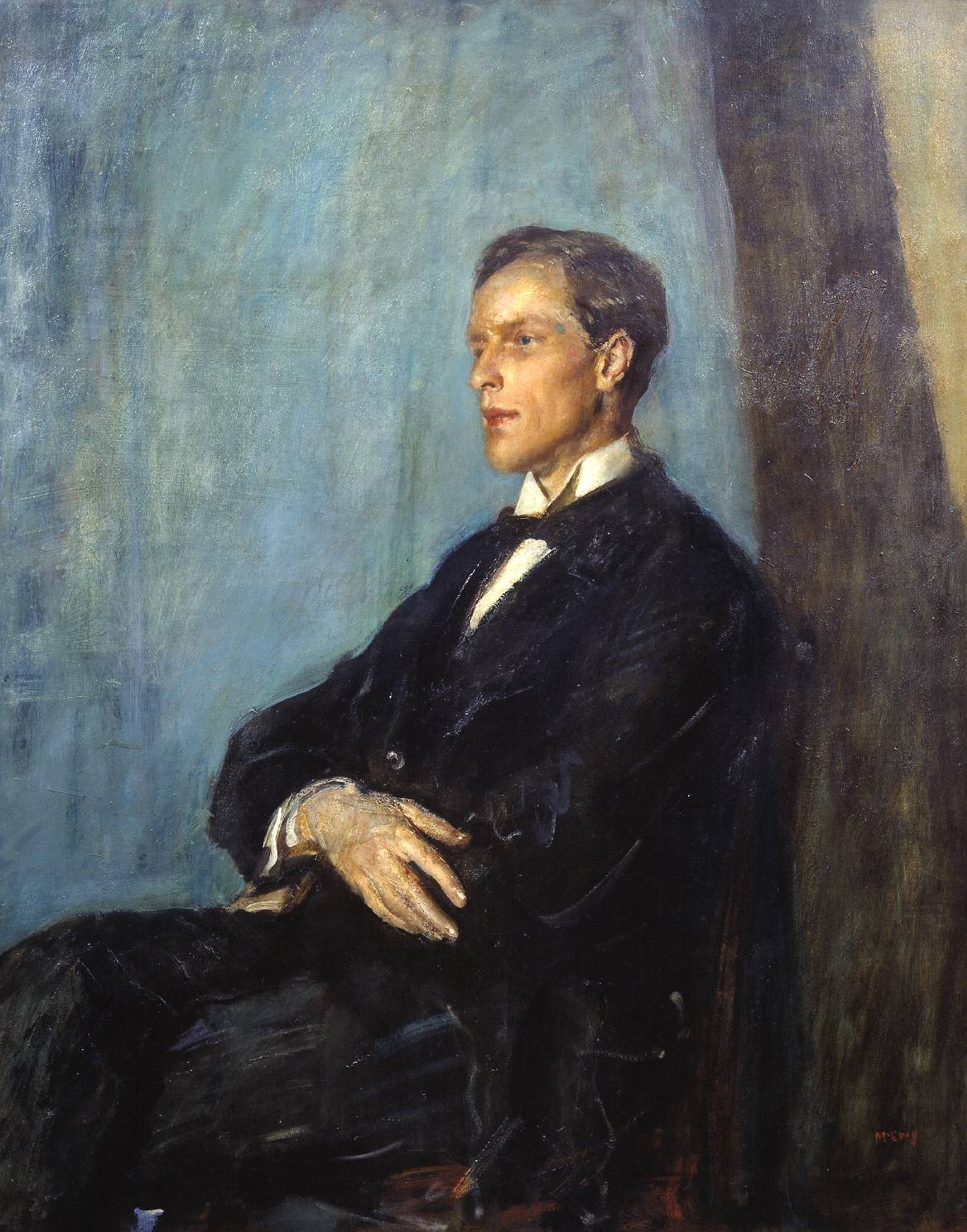 William Jowitt, 1st Earl Jowitt (1885-1957)